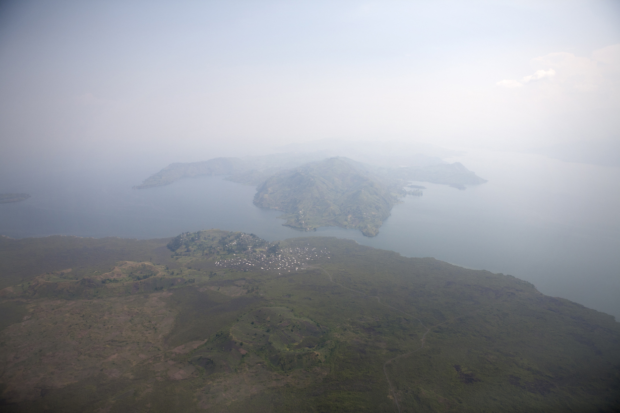 Landscape of North-Kivu